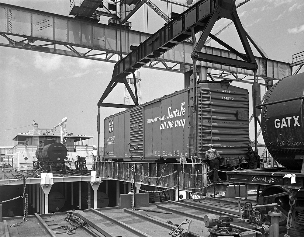 Title: [Seatrain Louisiana, Hoisting ATSF Railroad Freight Car from Cargo Hold, Seatrain Lines] Creator: Richie, Robert Yarnall, 1908-1984 Date: May 5, 1952 Place: Texas City, Galveston County, Texas Part Of: Robert Yarnall Richie photograph collection Physical Description: 1 negative: film, black and white; 10.1 x 12.8 cm File: ag1982_0234_3532_53_seatrainlines_sm_opt.jpg Rights: Please cite DeGolyer Library, Southern Methodist University when using this file. A high-resolution version of this file may be obtained for a fee. For details see the web page. For other information, . For more information, see: View the full series: View Robert Yarnall Richie Photograph Collection